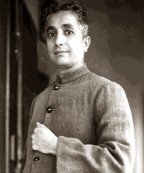 Kuvempu